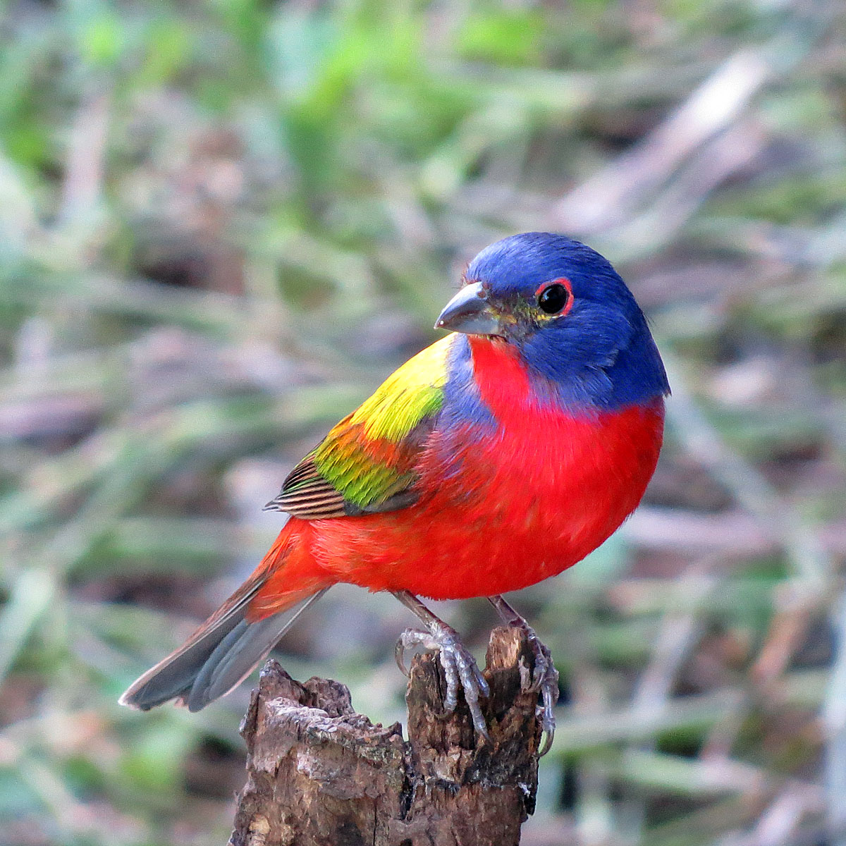 Painted Bunting Passerina ciris ciris, male, Merritt Island, Florida